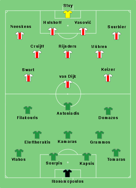 Football Formation and Line-up for 1971 European Cup Final Ajax vs Panathinaikos.